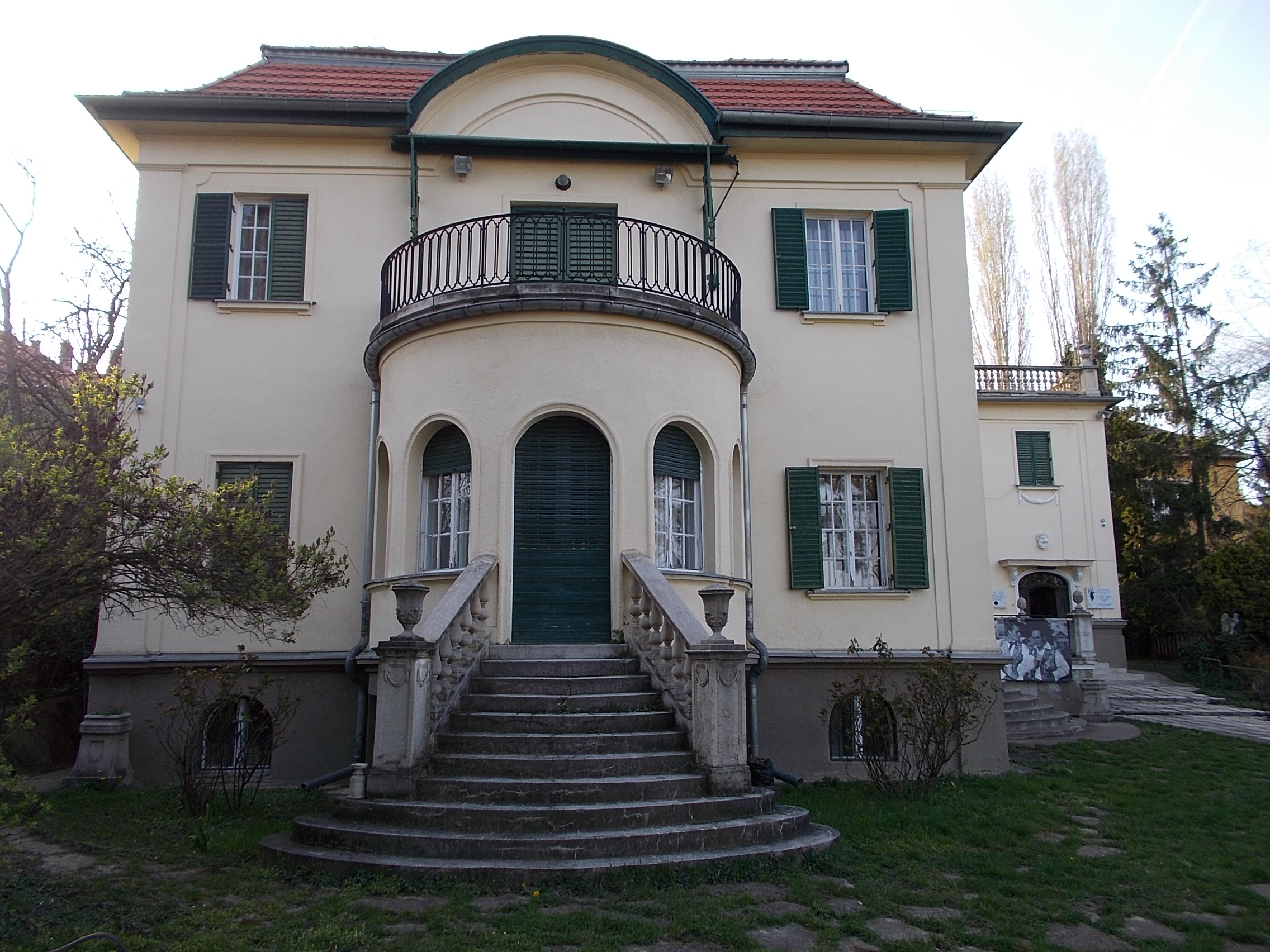 Bajor Gizi Actors' Museum. - 16 Stromfeld út, Budapest District XII., Hungary.